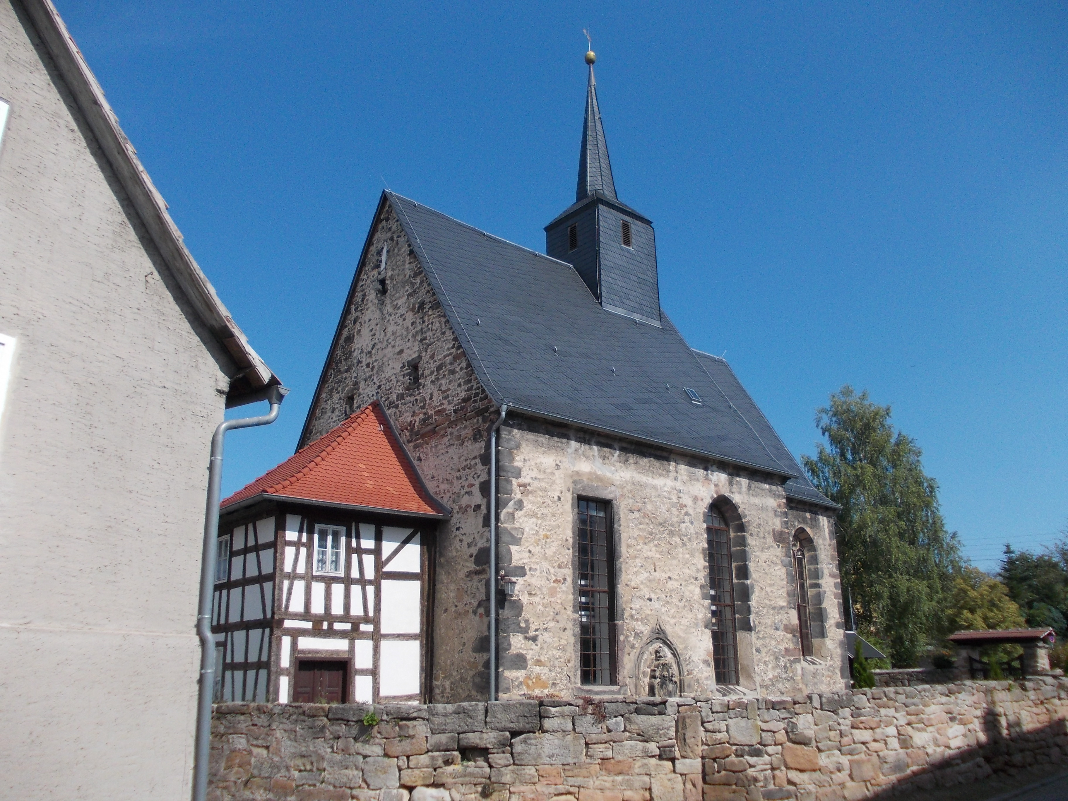 Freienorla church (district: Saale-Holzland-Kreis, Thuringia)